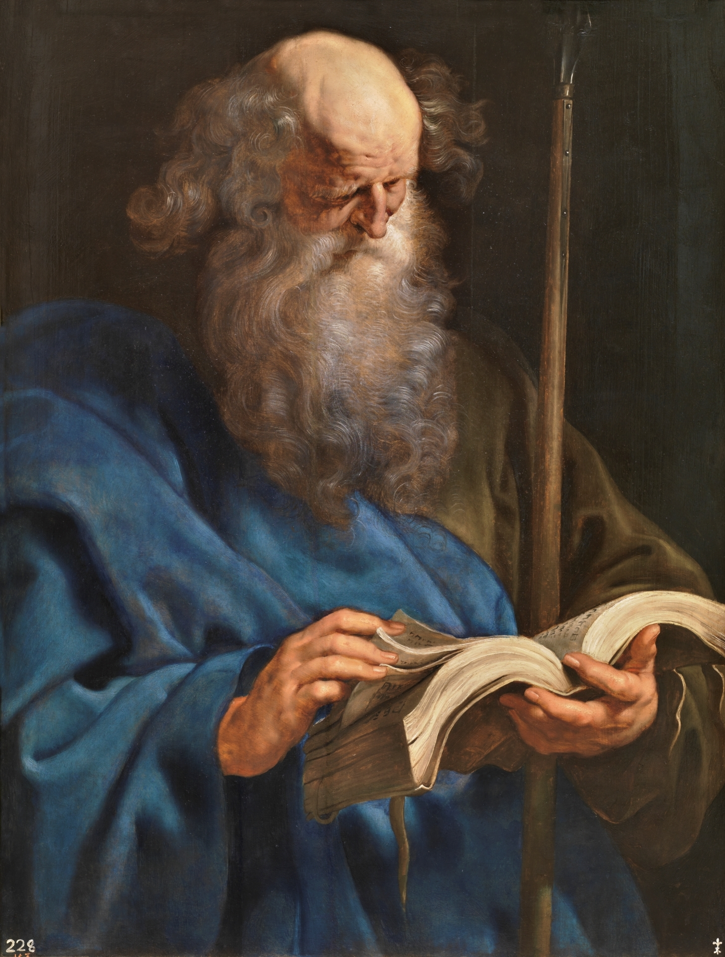 St. Thomas, from Rubens' Twelve Apostles Series.